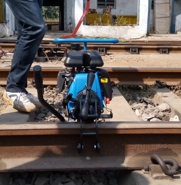 Petrol Rail Drilling Machine